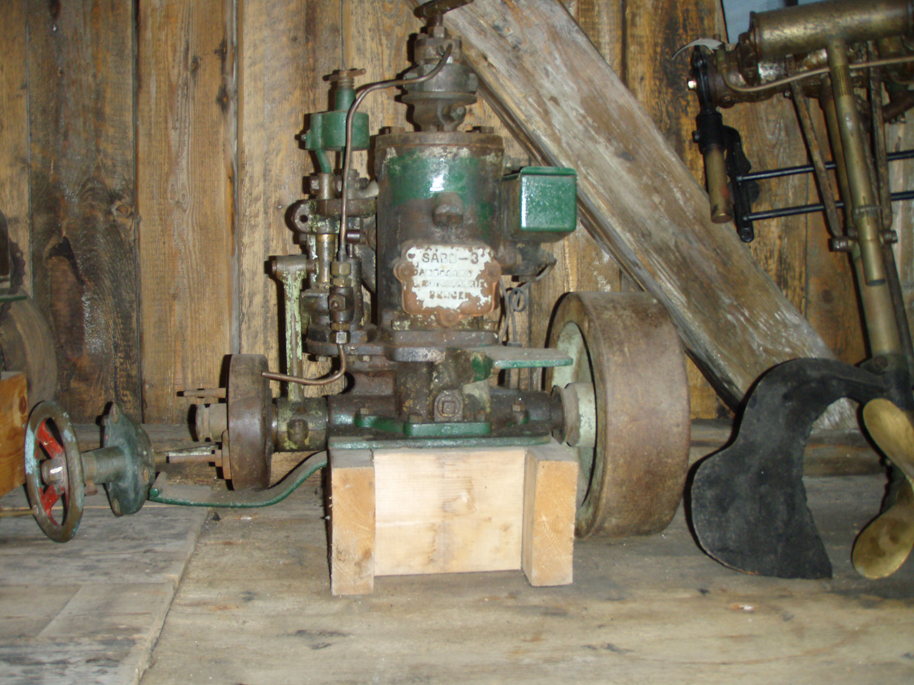 Boat engine, made by SABB - inboard, prototype probably ca. 1925